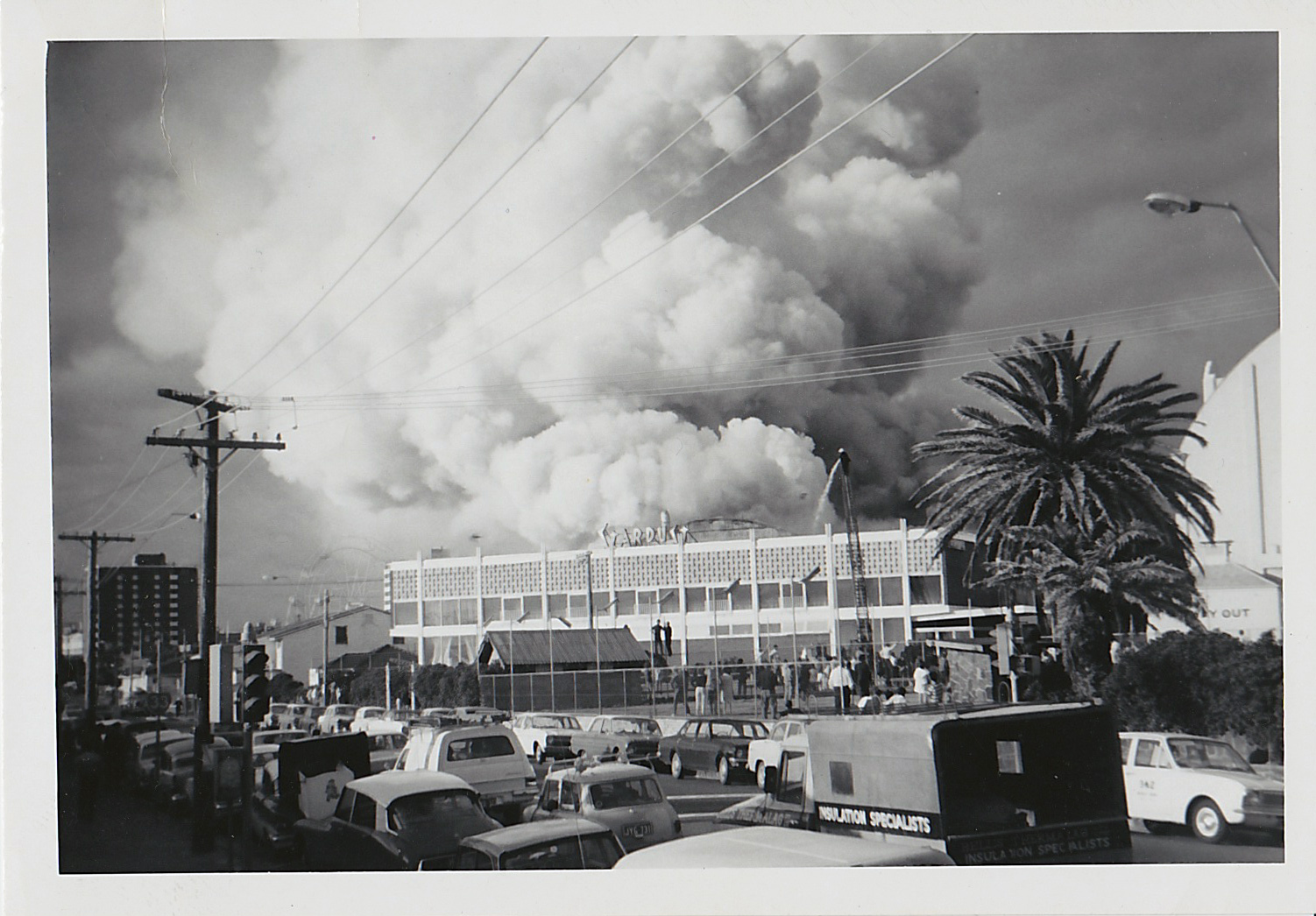 The Stardust Lounge and Palais de Danse in St Kilda are on fire